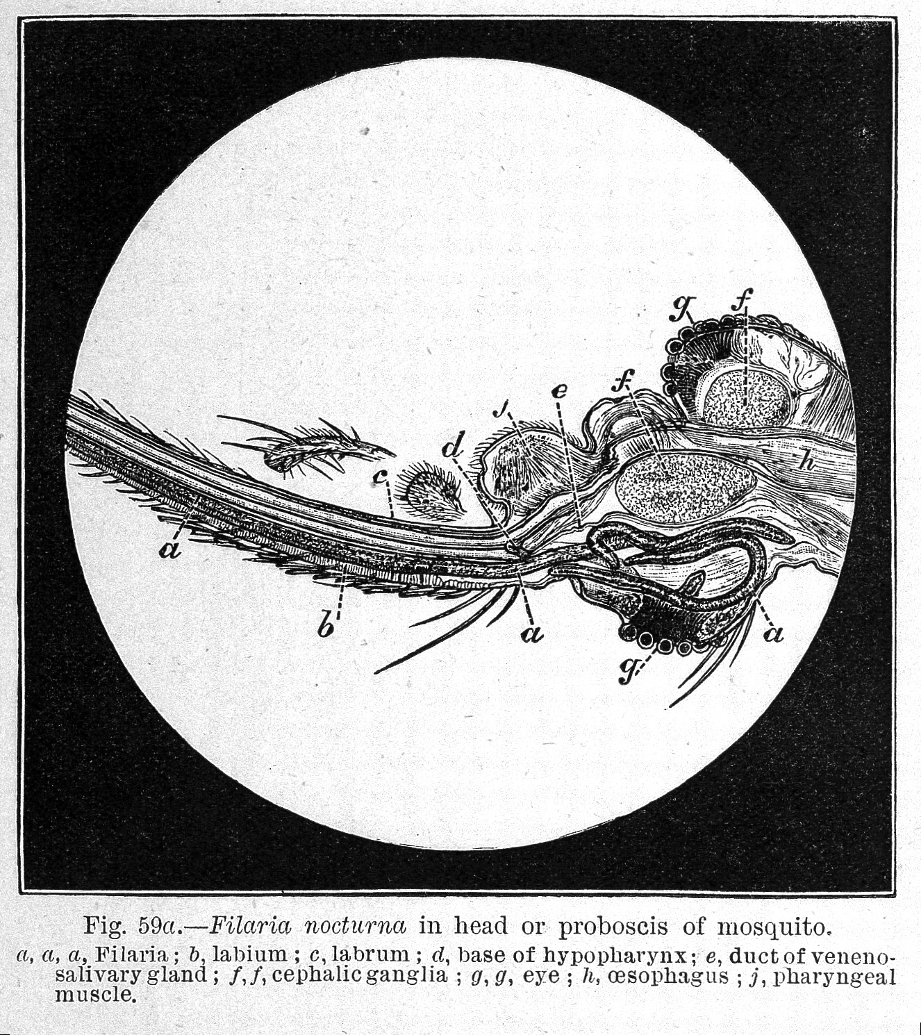 Filaria nocturna in head or proboscis of mosquito. General Collections Keywords: tropical diseases; Patrick Manson